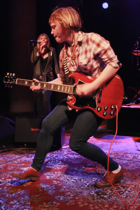 Wallis Bird at Rockhouse Salzburg